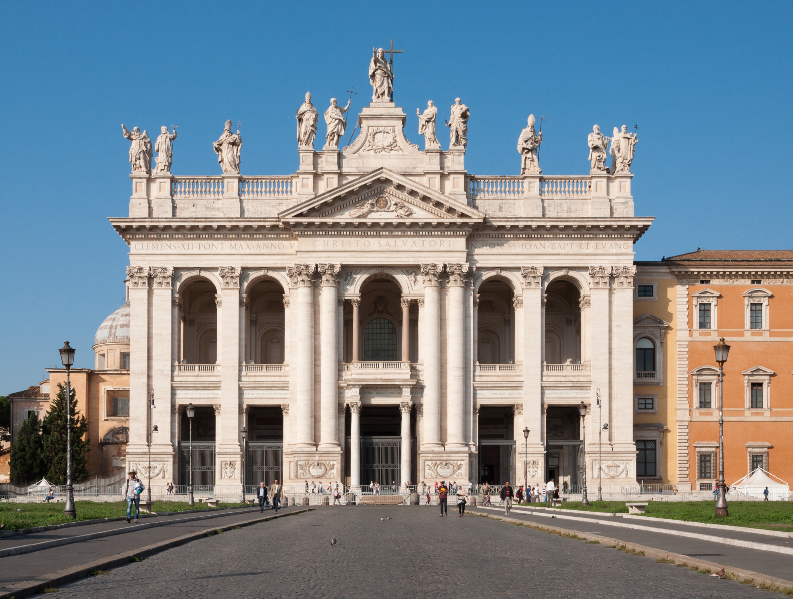 The Papal Archbasilica of St. John in Lateran, Rome.